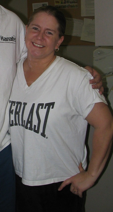 Tonya Harding in Everlast boxing shirt, with BOGO from KIBZ 104-1 The Blaze's Morning Show in Lincoln, NE. In the KIBZ studios for a promotion for a boxing event.